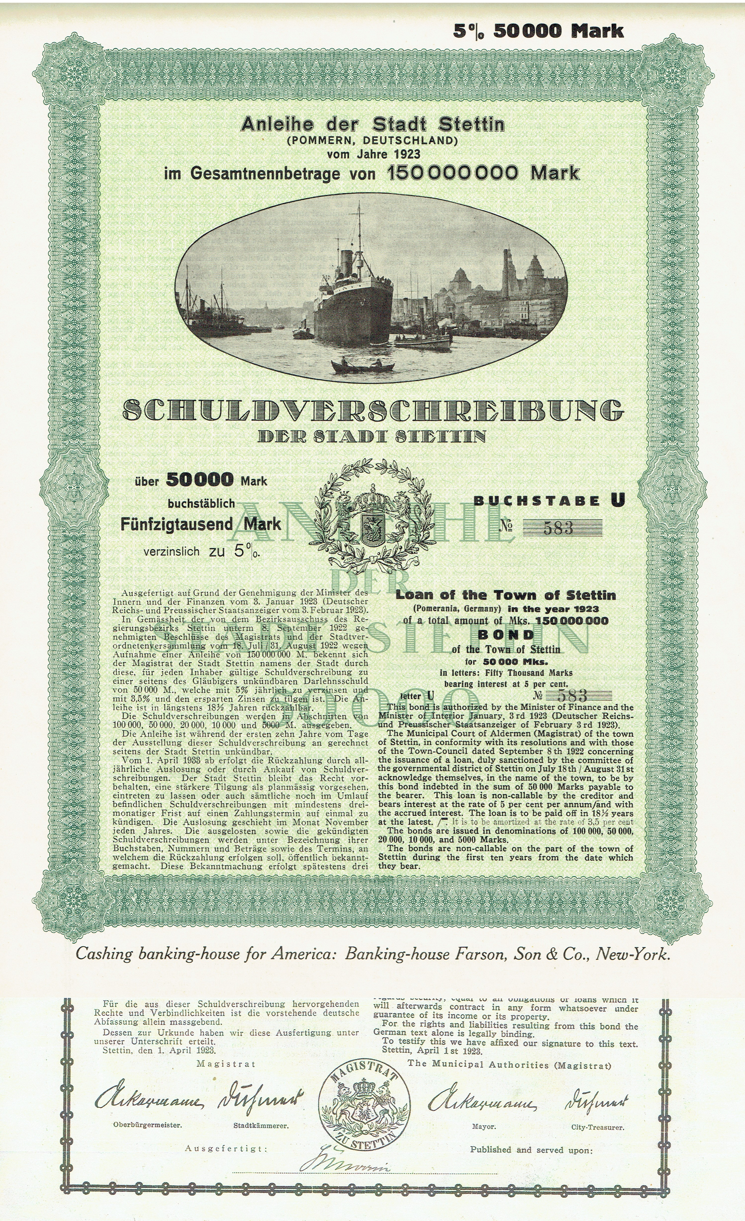 Bond of the City of Stettin, issued 1. April 1923